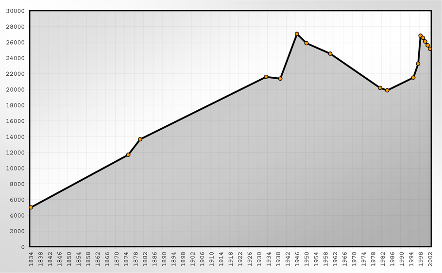 This image shows the population statistics of Werdau (Germany).